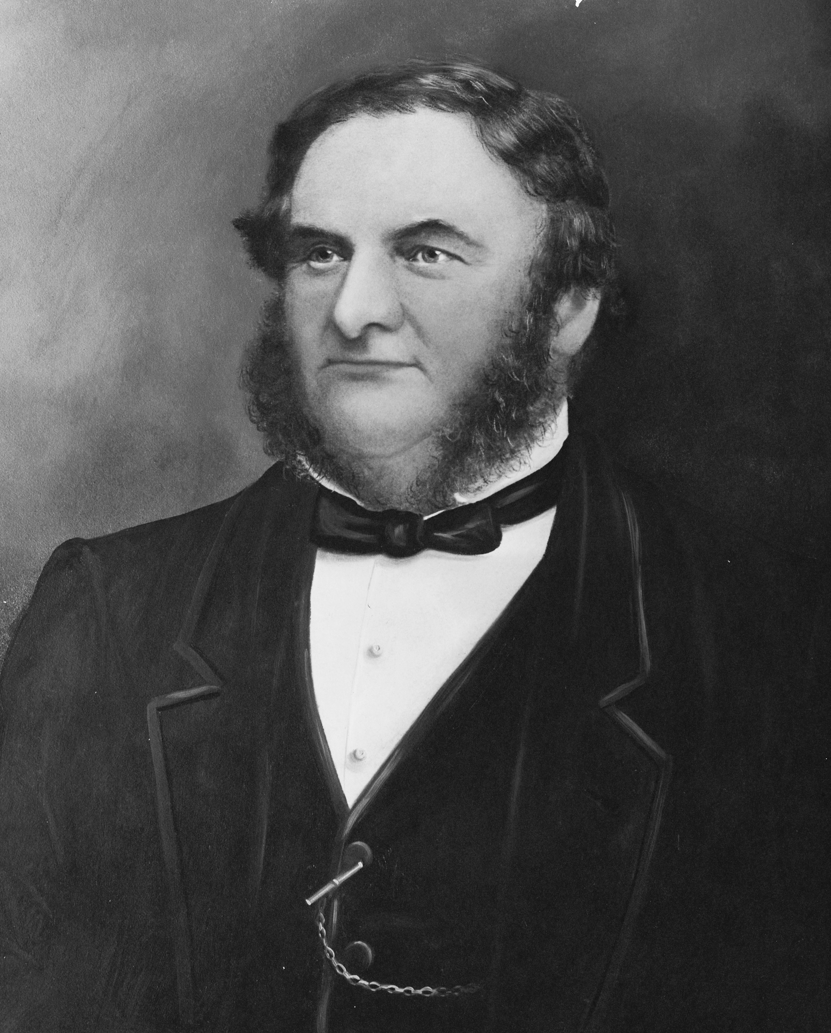 Photograph of a painting of William Barbour Wilson. The image is likely to represent Wilson as he looked in 1867, when he was appointed Mayor, however the date of the painting, and the photograph, are unknown. Artist and photographer are also unknown.